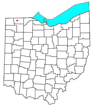 Locator map of the unincorporated community of Tedrow in Fulton County, Ohio, United States.